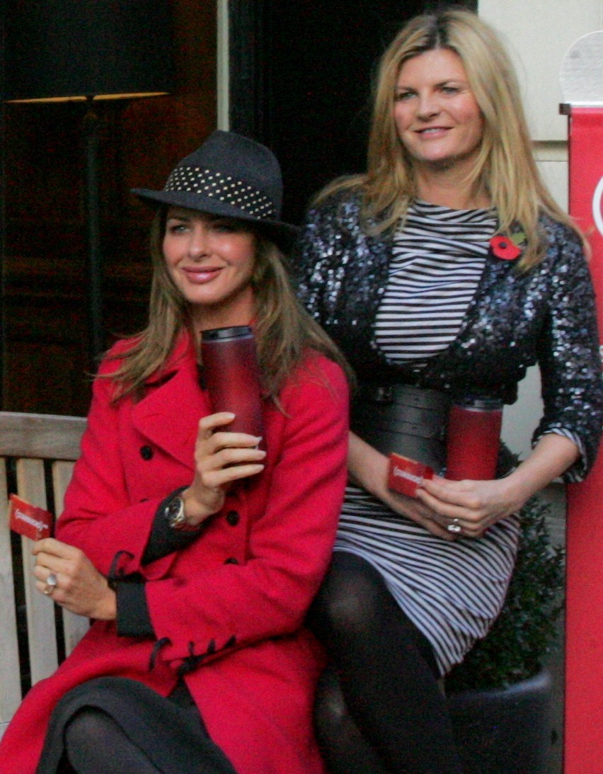 Trinny Woodall and Susannah Constantine